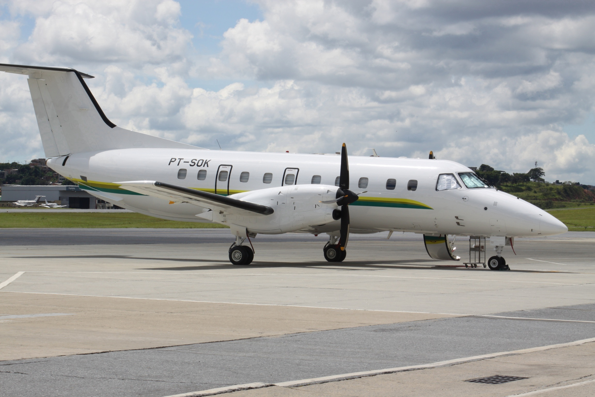 At Belo Horizonte Pampulha